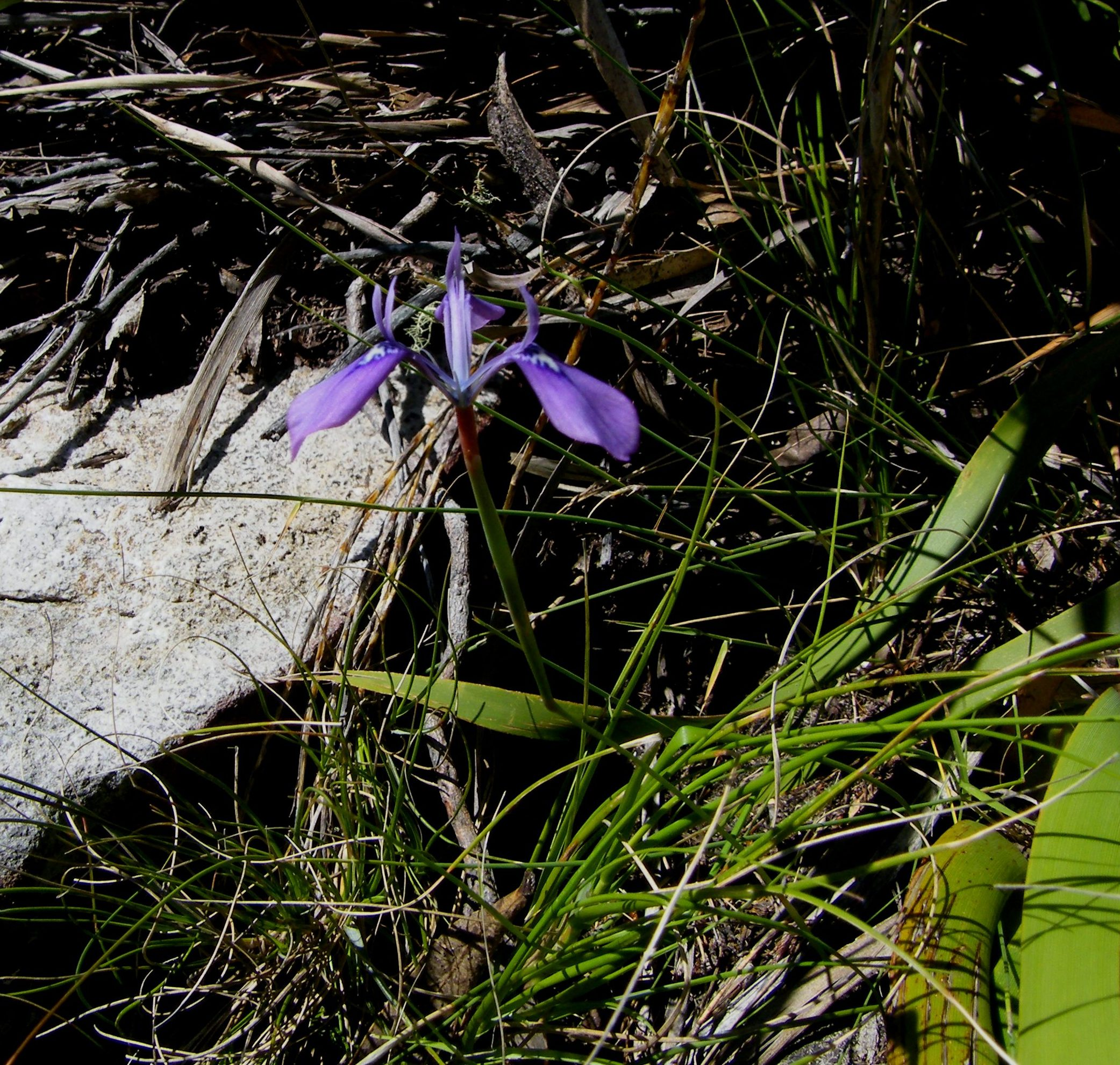 Moraea tripetala